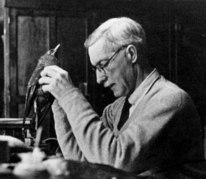 Richard H. Meinertzhagen working with museum specimens